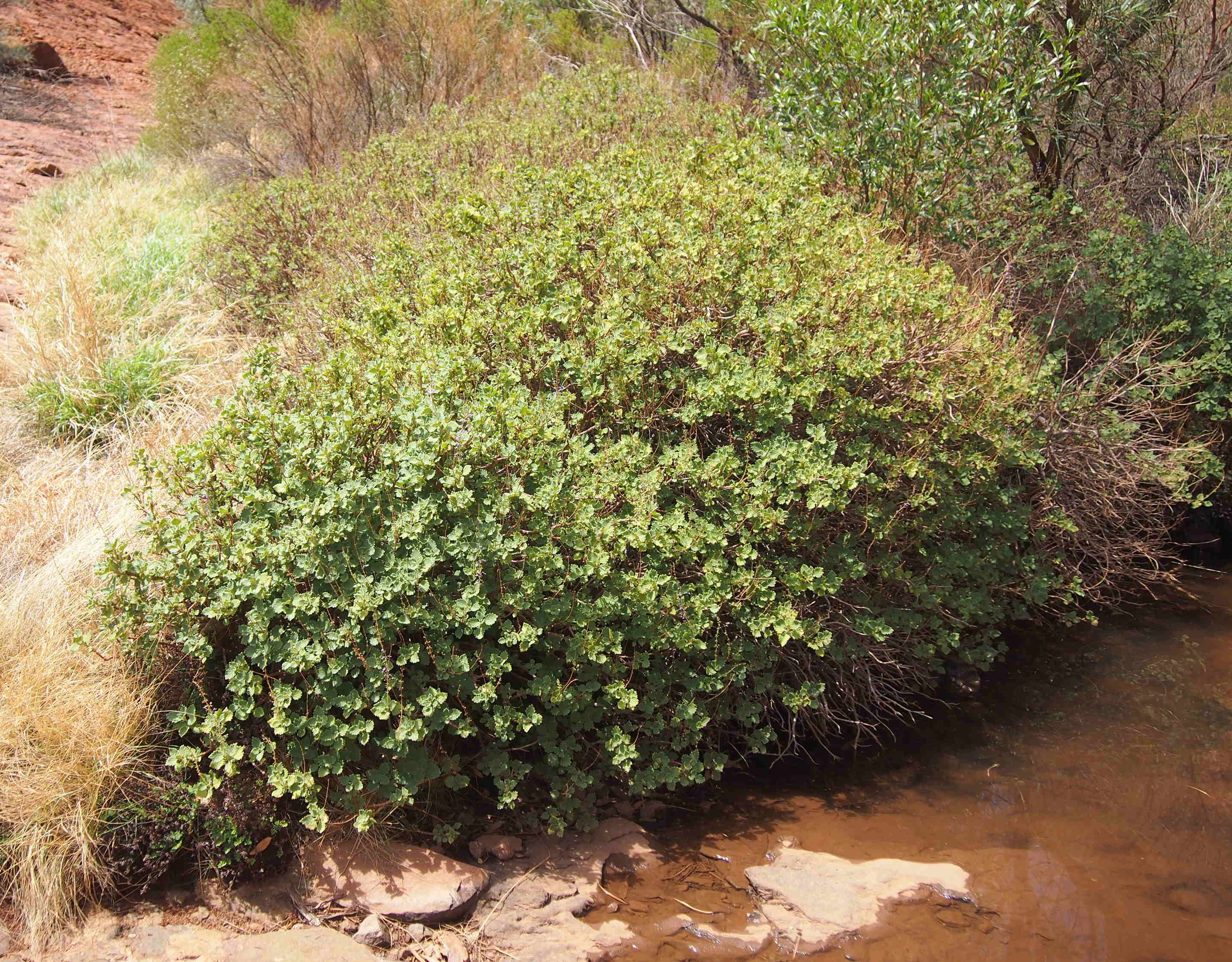 Plectranthus intraterraneus'